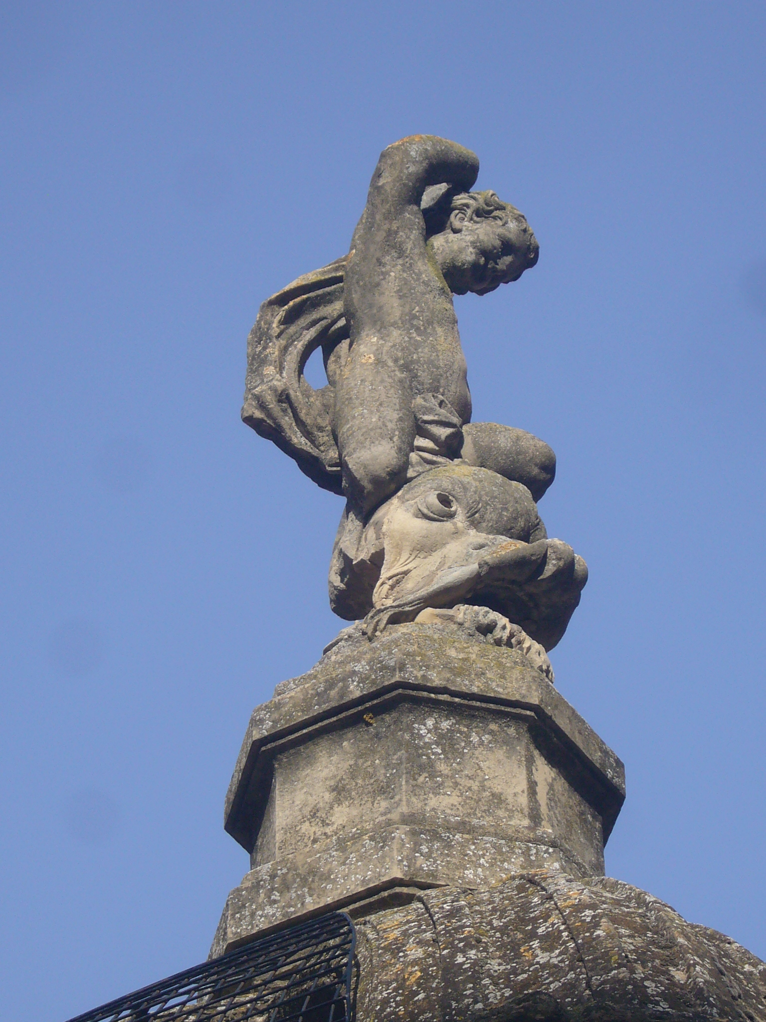 Universitat de Cervera